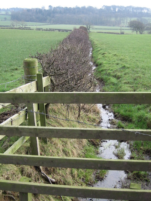 Ditch and Fence